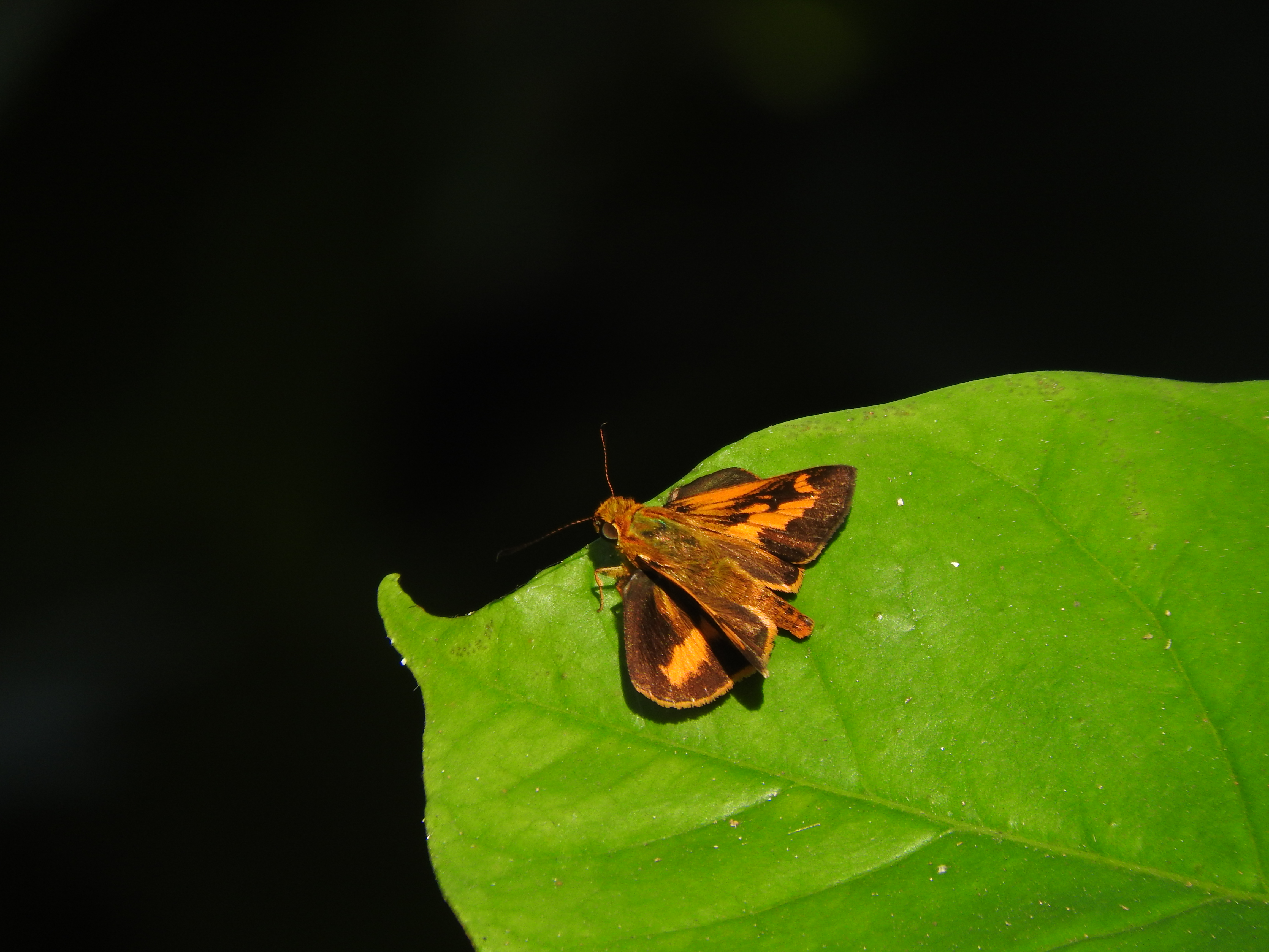 Dartlet butterfly taken in Nelliyampathy, Kerala